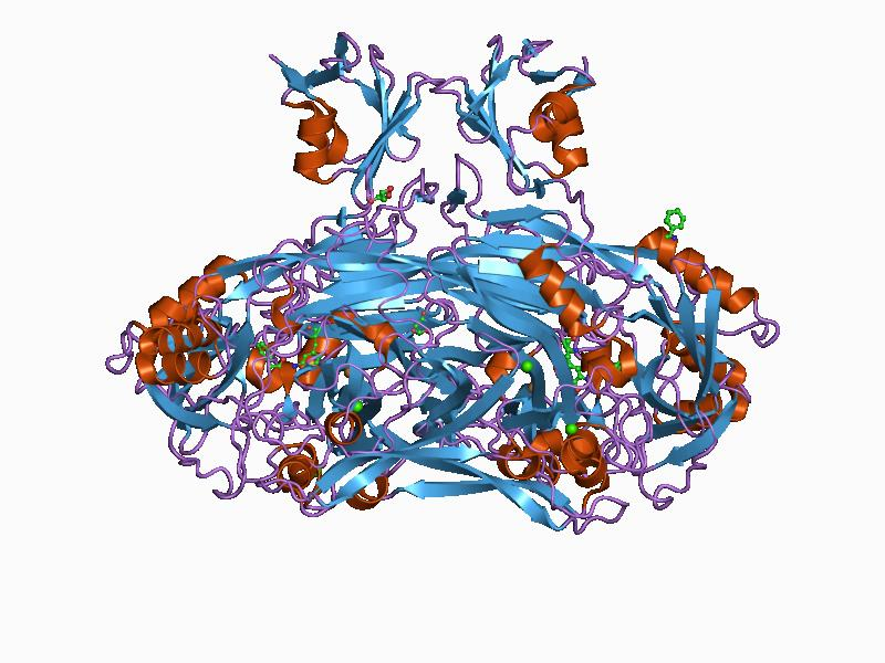 Cartoon representation of the molecular structure of protein registered with 1d6u code.